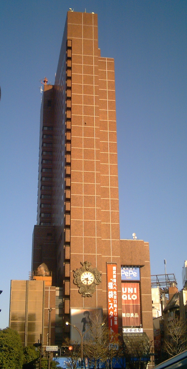 Shinjuku Prince Hotel and Seibu Shinjuku Station, Tokyo, Japan